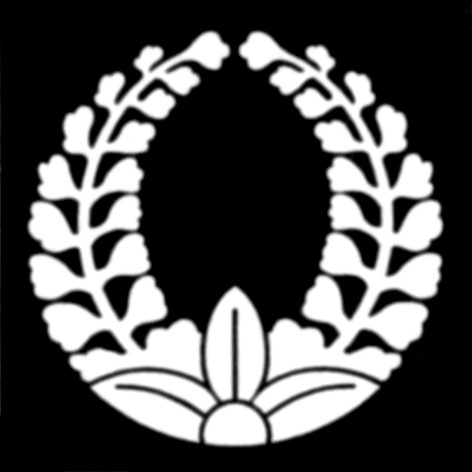 Crest of Katô at Niiya